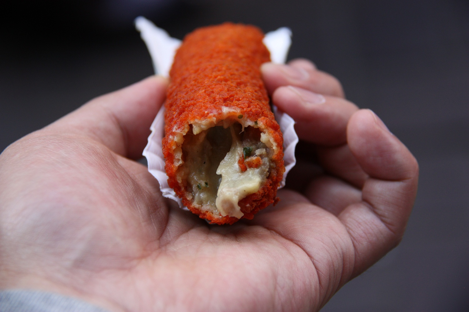 Kalfsvleeskroket, Dutch for a veal croquette, from Febo in Amsterdam, The Netherlands.